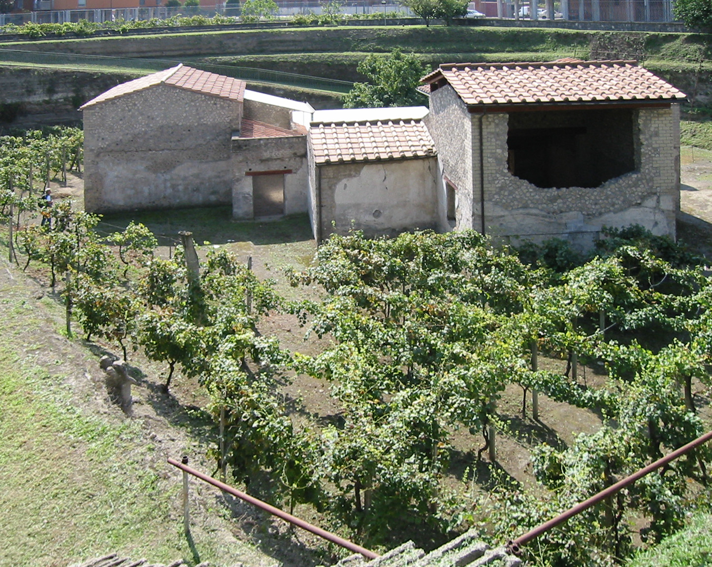 The ancient roman Villa Rustica in Boscoreale in Italy.